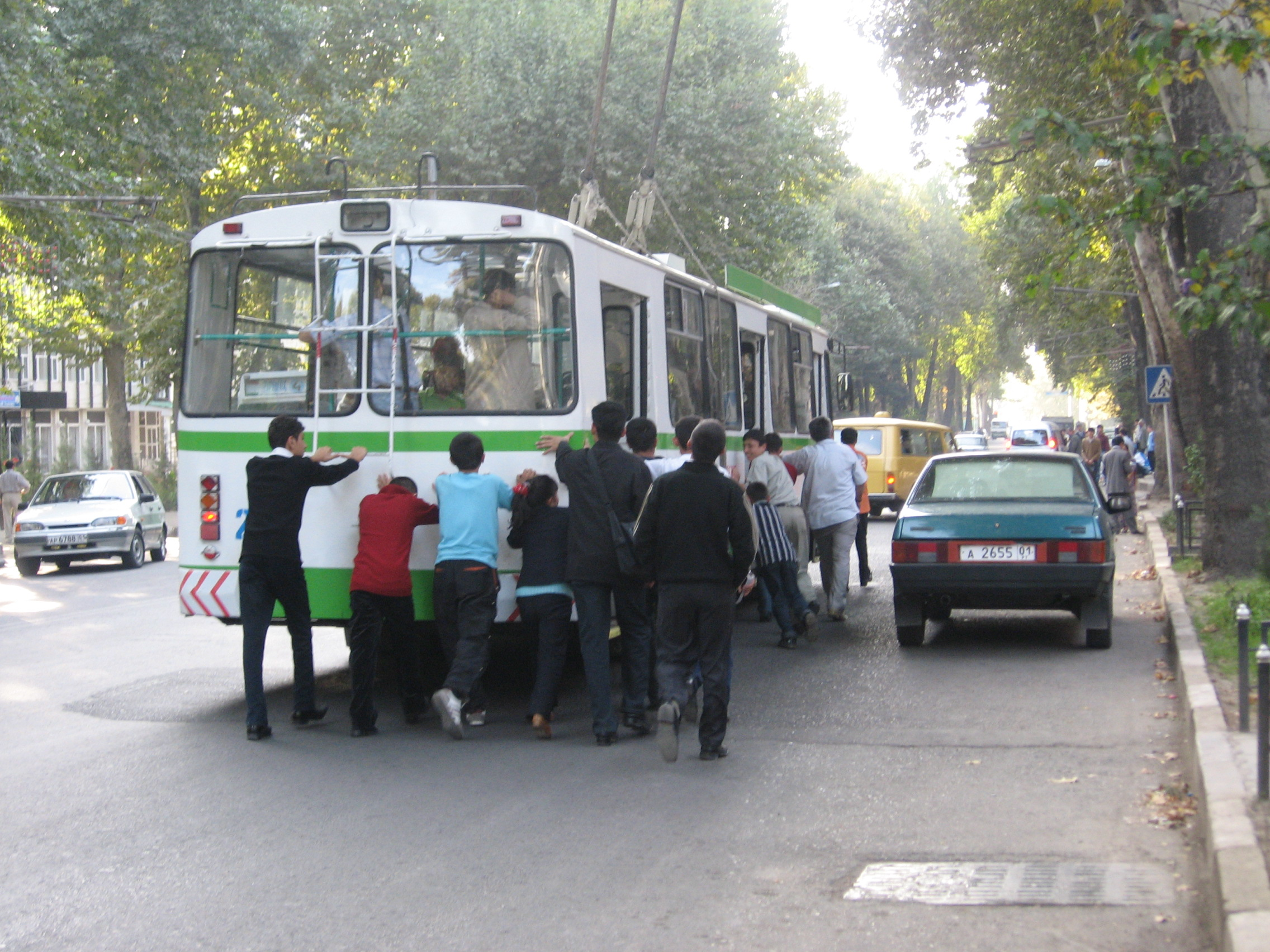 Trolleybus in Dushanbe, Tajikistan.